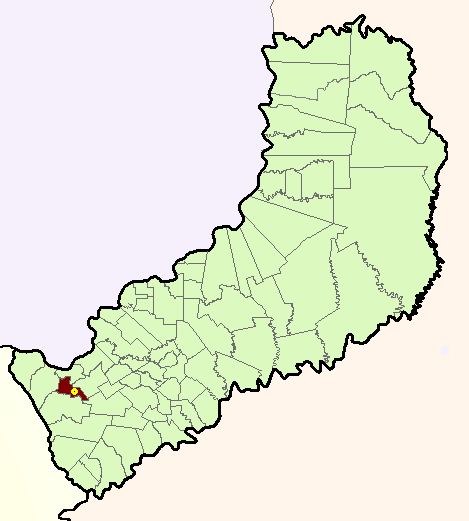 Map showing municipio of Profundidad in Misiones Province, Argentina. Yellow point marks Profundidad town.